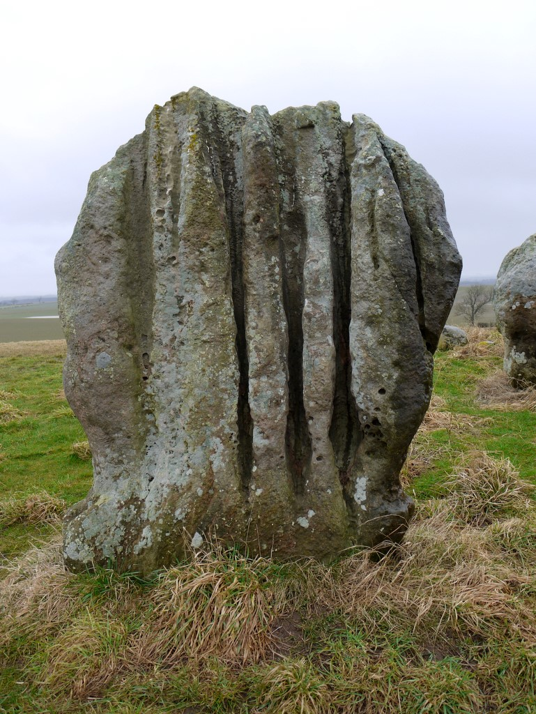 Portrait of a standing stone, Duddo Stone Circle. The large eastern stone of 1729405, thought to have faint man-made cup marks but heavily eroded and fluted by centuries of weathering